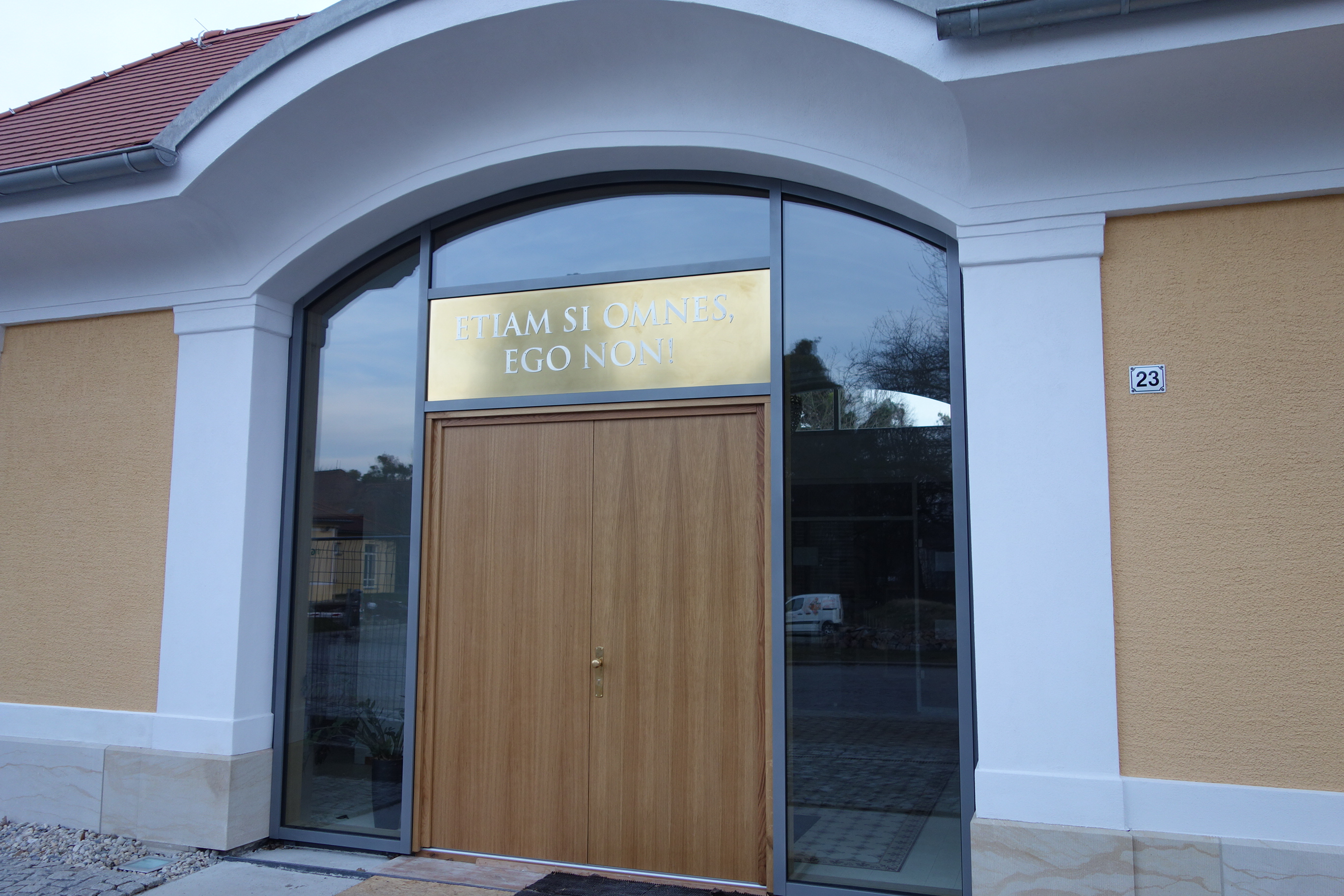 Latin motto "Etiam si omnes ego non!" over the door of a house